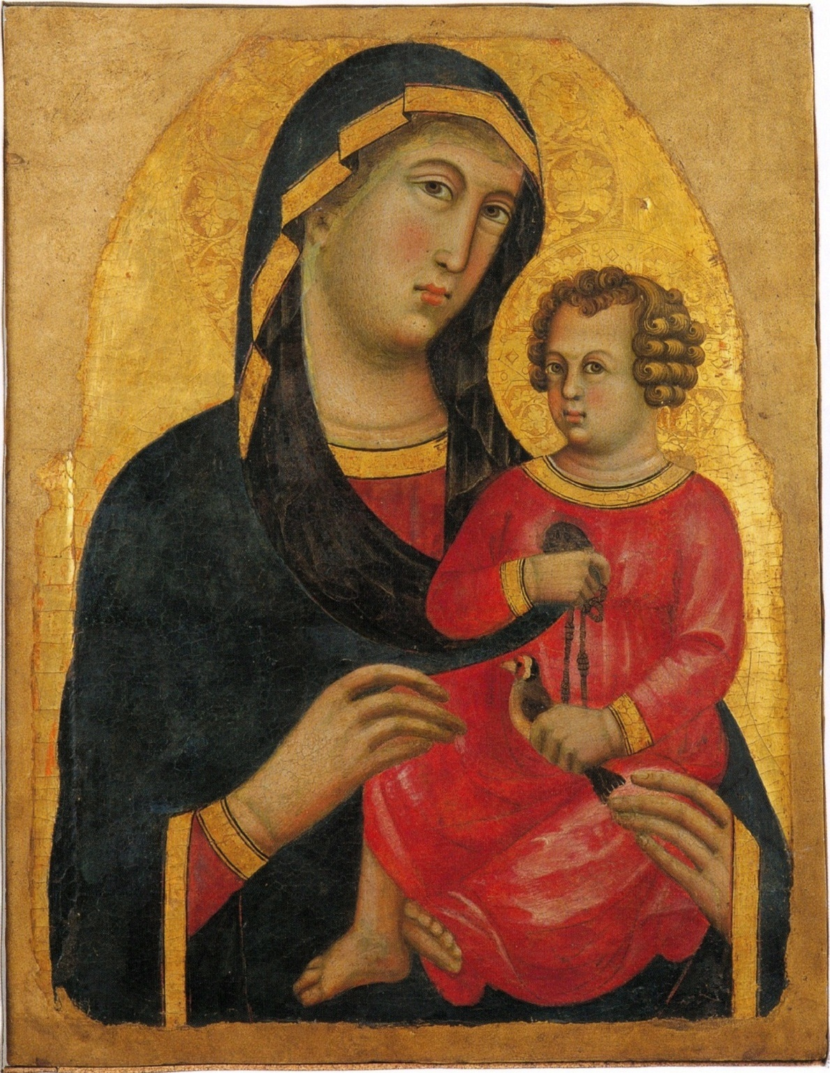 Virgin and Child